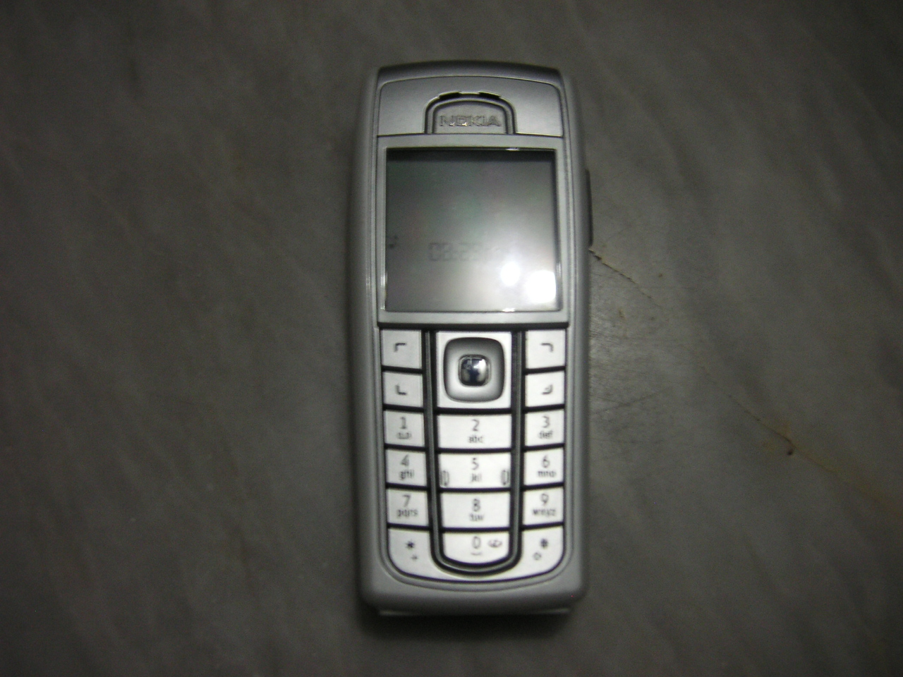 Author's own picture. Nokia 6230i